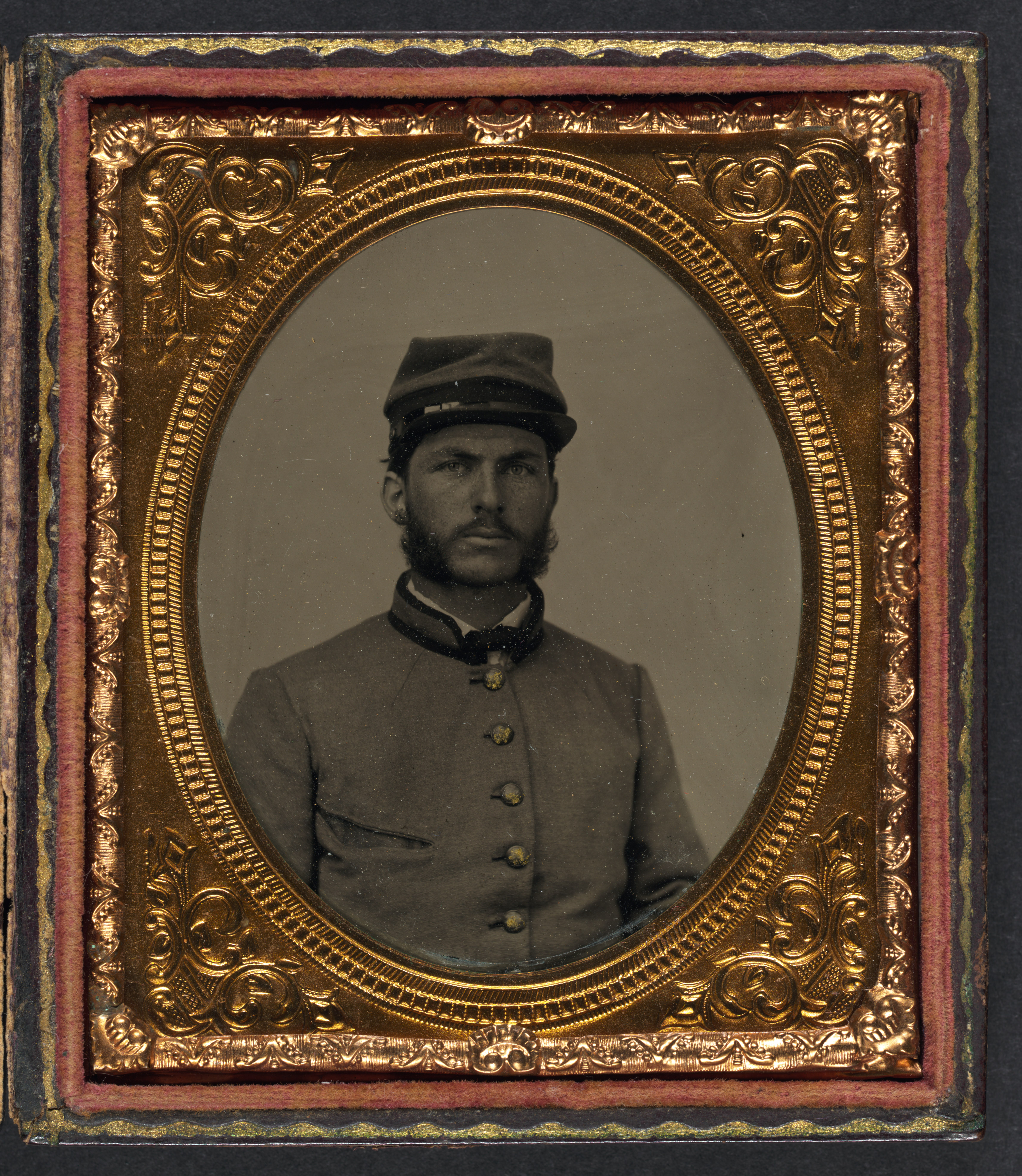 Title: Private R. Cecil Johnson of 8th Georgia Infantry Regiment and South Carolina Hampton Legion Cavalry Battalion in uniform Abstract/medium: 1 photograph : sixth-plate tintype, hand-colored ; 9.4 x 8.2 cm (case)